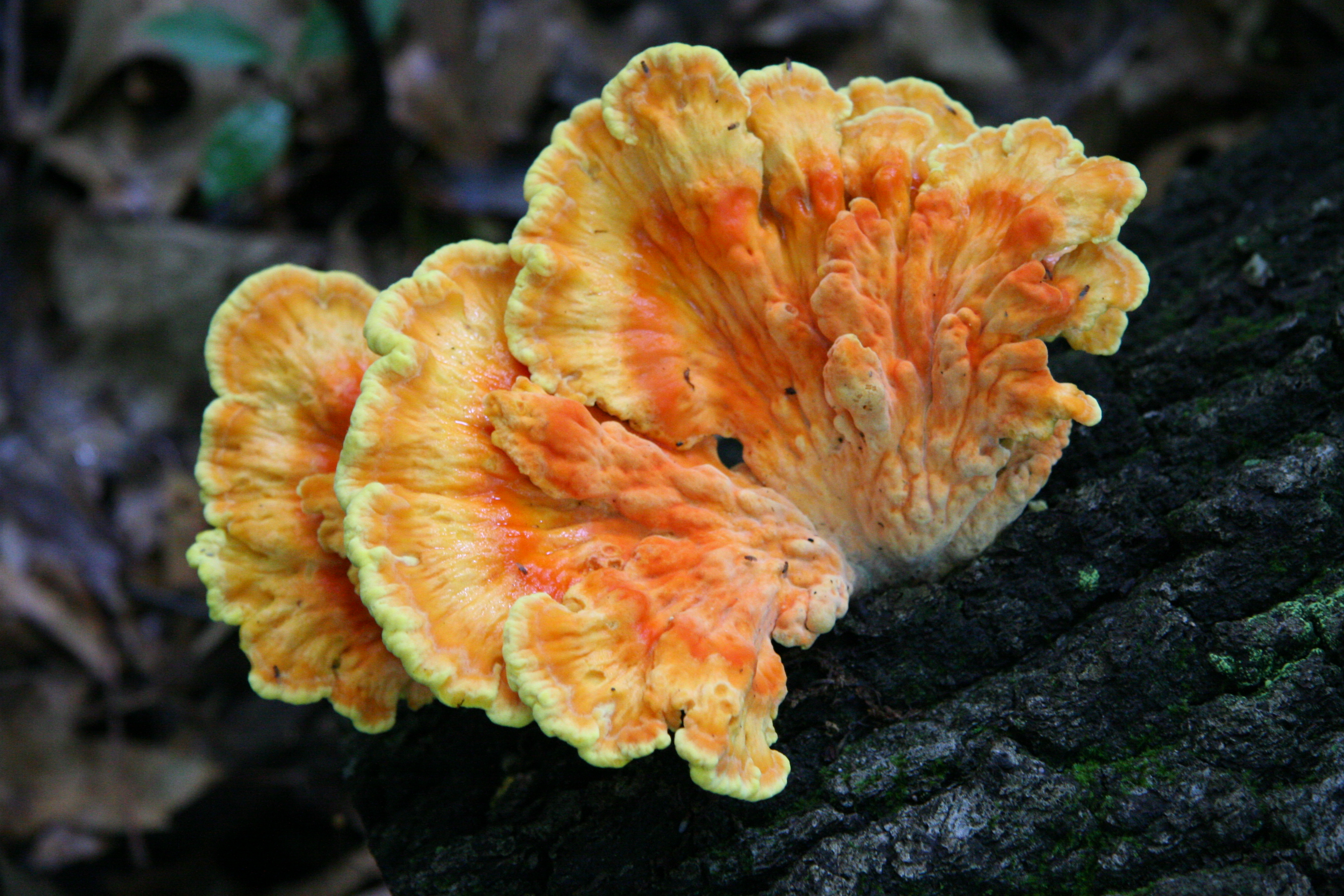 Chicken of the Woods